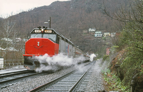 The Mountaineer at Welch station in March 1975